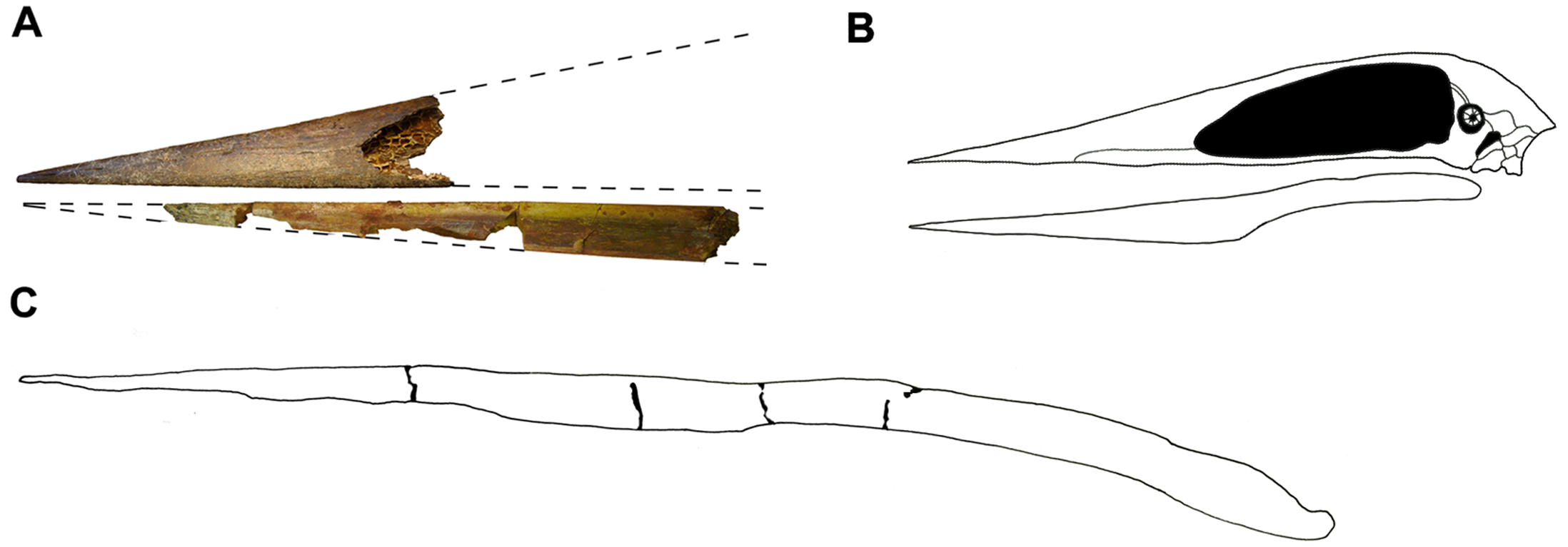 Reconstructed jaws of Alanqa saharica compared to other azhdarchids. A) Holotype specimen (mandibular symphysis) of Alanqa saharica (FSAC-KK 26) matched with one of the referred rostra, BSP 1993 IX 338. B) Skull outline of the azhdarchid Zhejiangopterus linhaiensis, modified from Unwin and Lü (1997) and Witton and Naish (2008). C) Lower jaw of Quetzalcoalus sp., redrawn from Kellner and Langston (1996), specimen TMM 42161-2.